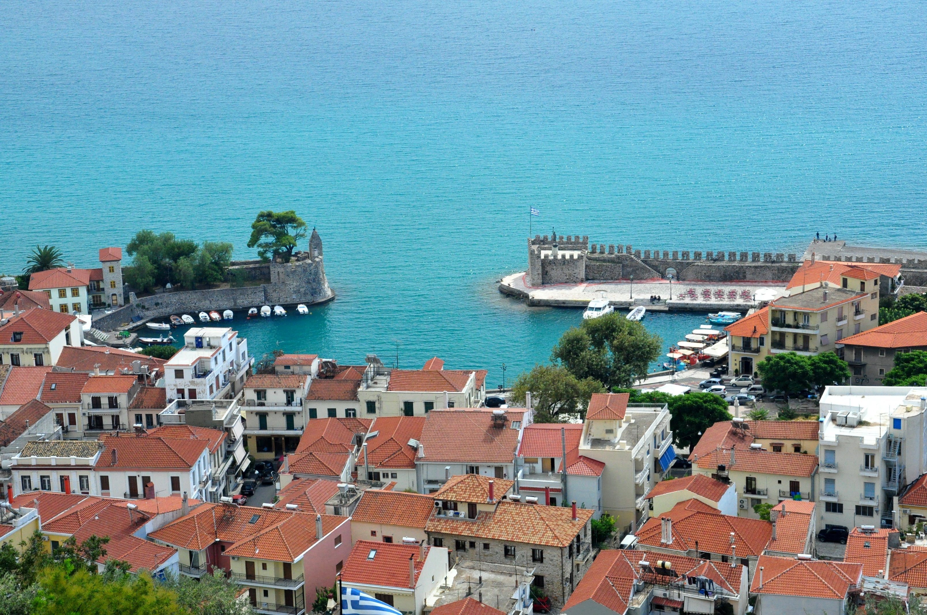 Old Nafpaktos